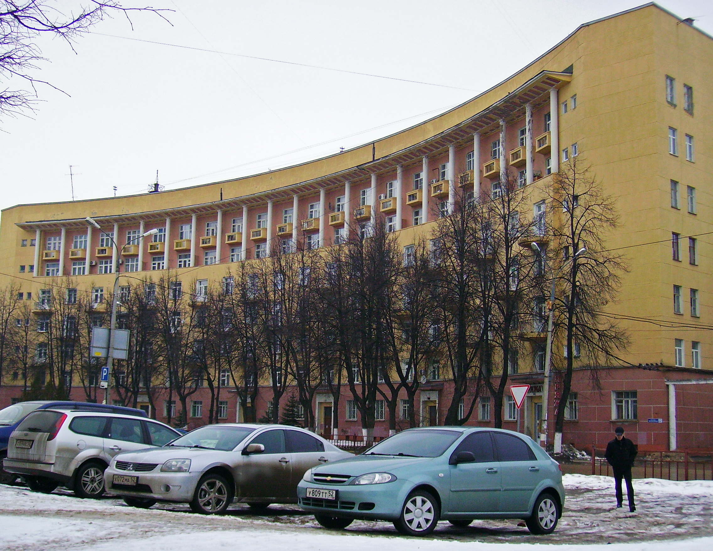 Nizhny Novgorod. Radius House (1935) in Avtozavodsky District